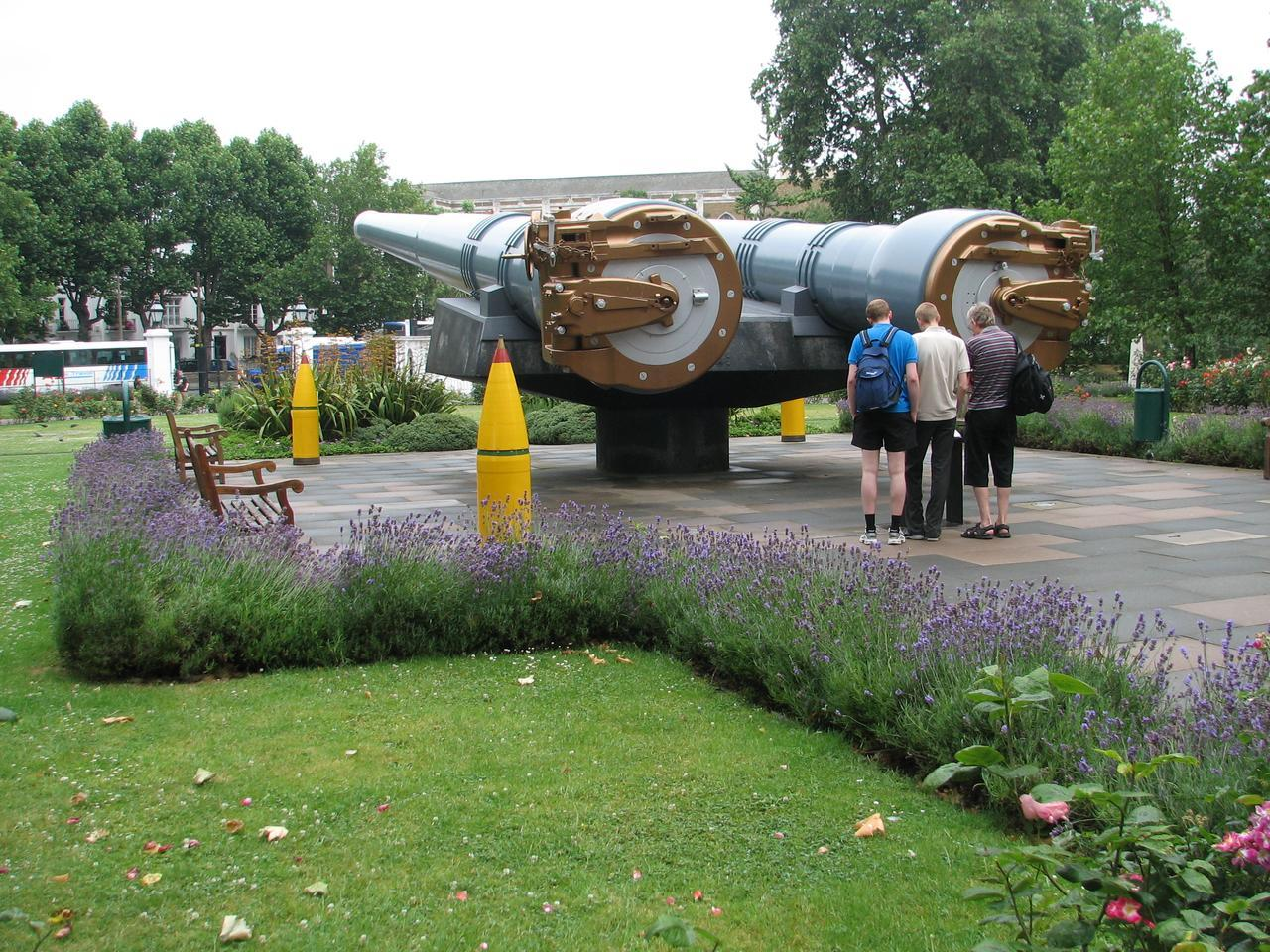 Breech view #2 of British 15 inch naval guns from HMS Ramillies (left) and HMS Resolution (right), outside the Imperial War Museum, London.